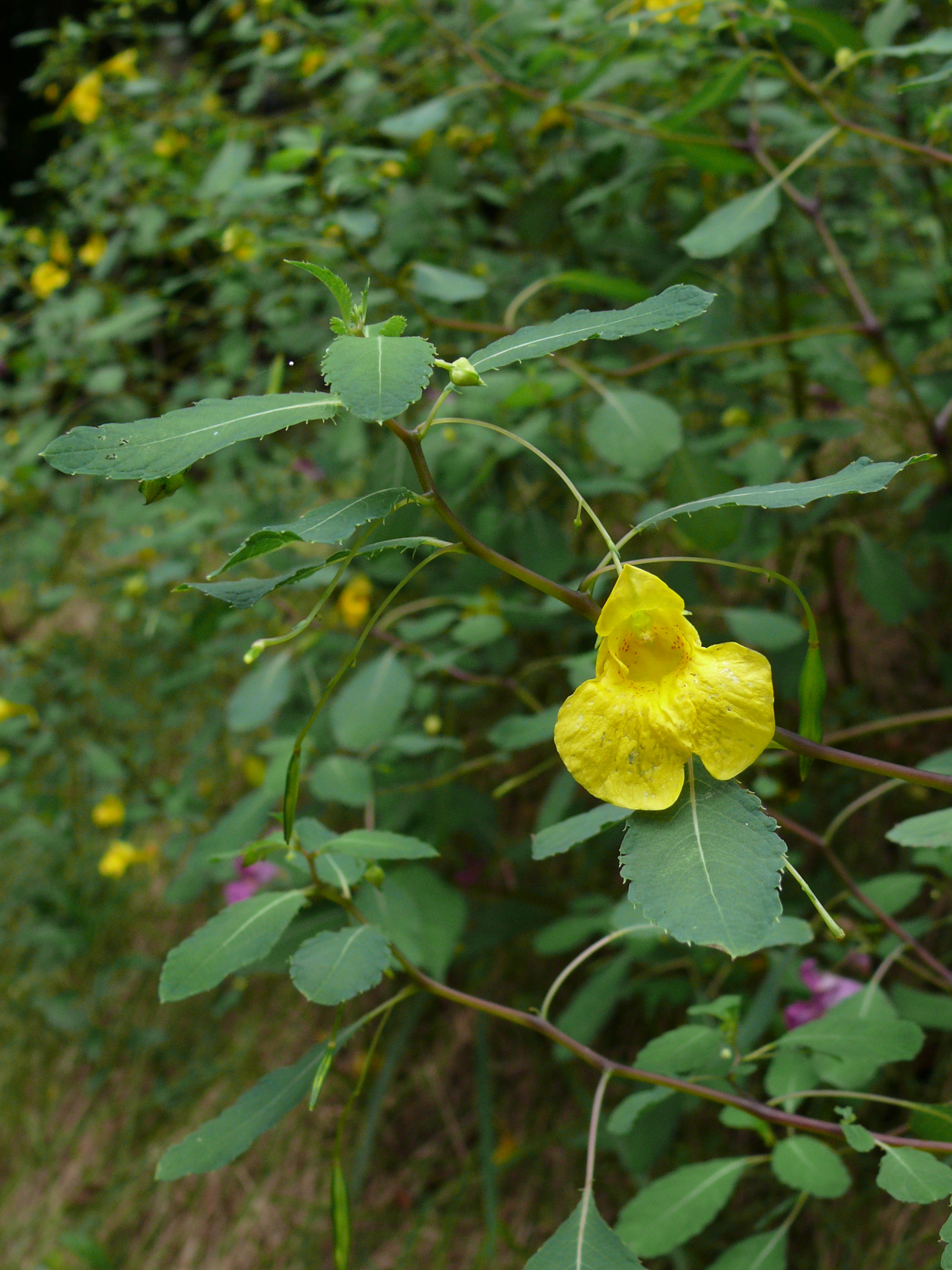 "Kitsurifune" (Impatiens noli-tangere, Touch-me-not Balsam). キツリフネ(Impatiens noli-tangere)の花と葉 Place: Higashitakane Shinrin-koen (forest park), Miyamae Kawasaki, Kanagawa, Japan.